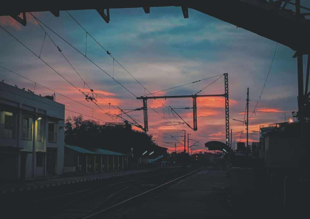 Baranagar Road railway station